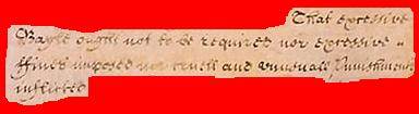 This is a scan or photo of part of the English Bill of Rights of 1689.